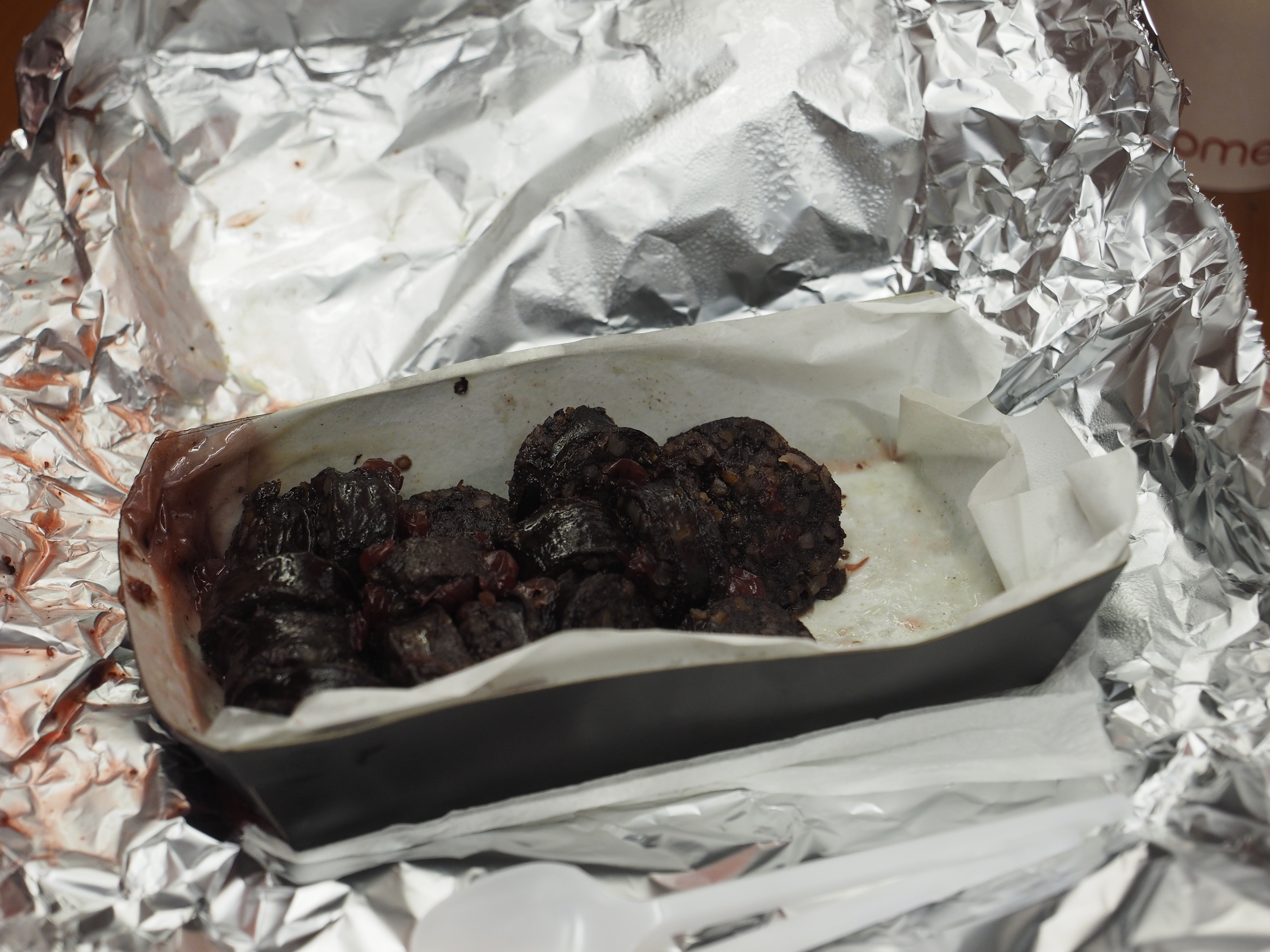 A plate of mustamakkara, Finnish blood sausage, bought from a grill kiosk in central Tampere, Pirkanmaa, Finland and eaten in a hotel room in the Tampere Omenahotelli hotel in the middle of the night. In the background is the aluminium foil casing intended to keep the food warm during transport.